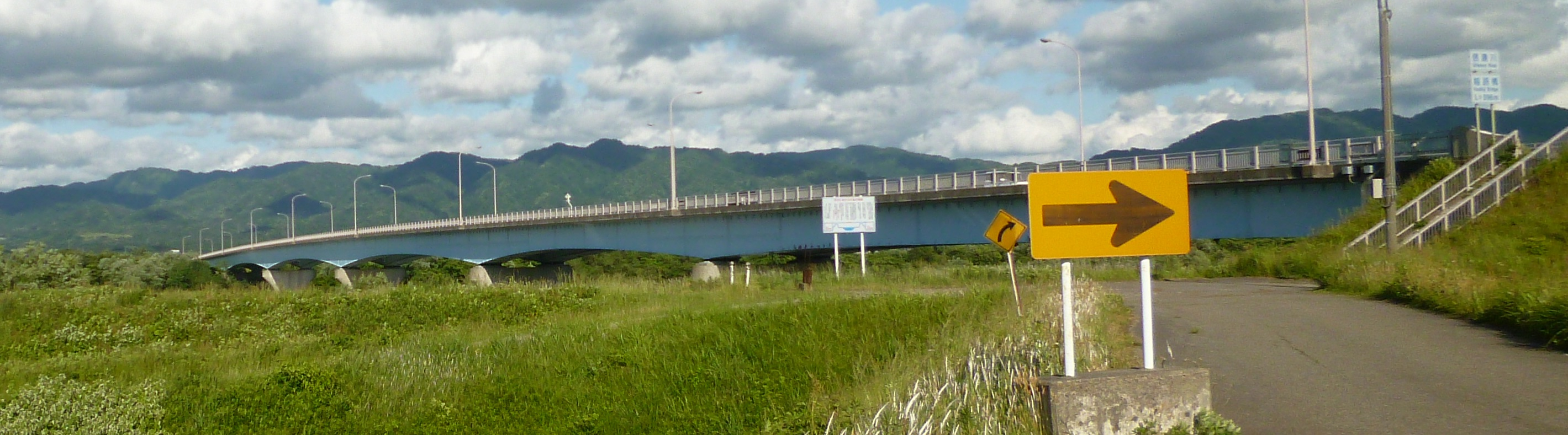 Koshiji Bridge